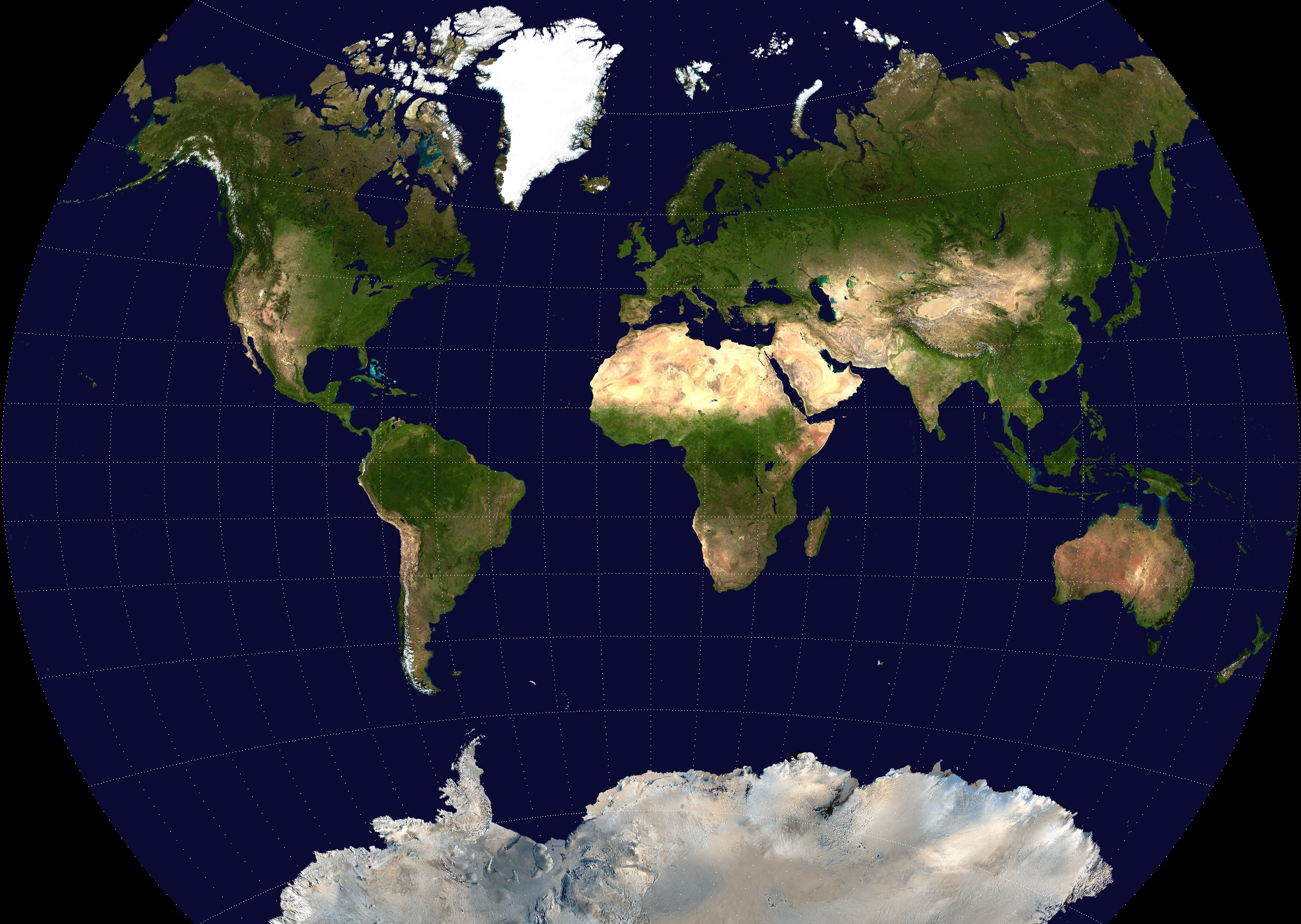 Van der Grinten (I) projection of the Earth. Source image is from NASA's Earth Observatory "Blue Marble" series.